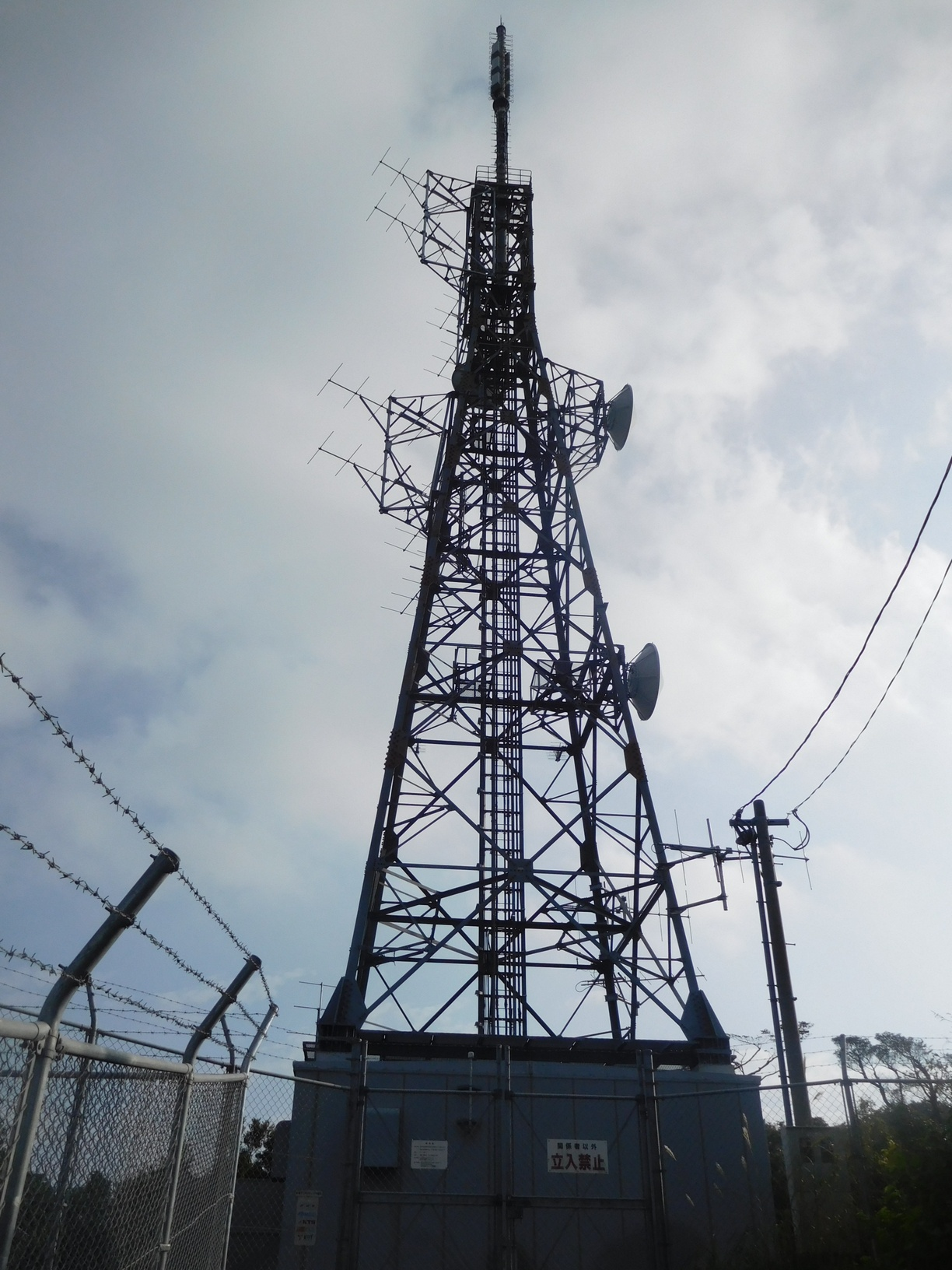 Kanoya Digital TV Repeater and MBC Kanoya FM Radio Repeater (Kanoya City, Kagoshima, Japan)